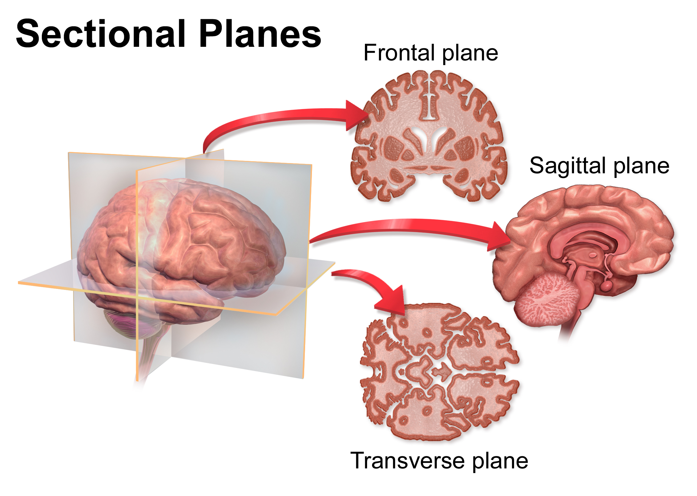 Sectional Planes of the Brain. See a related animation of this medical topic.